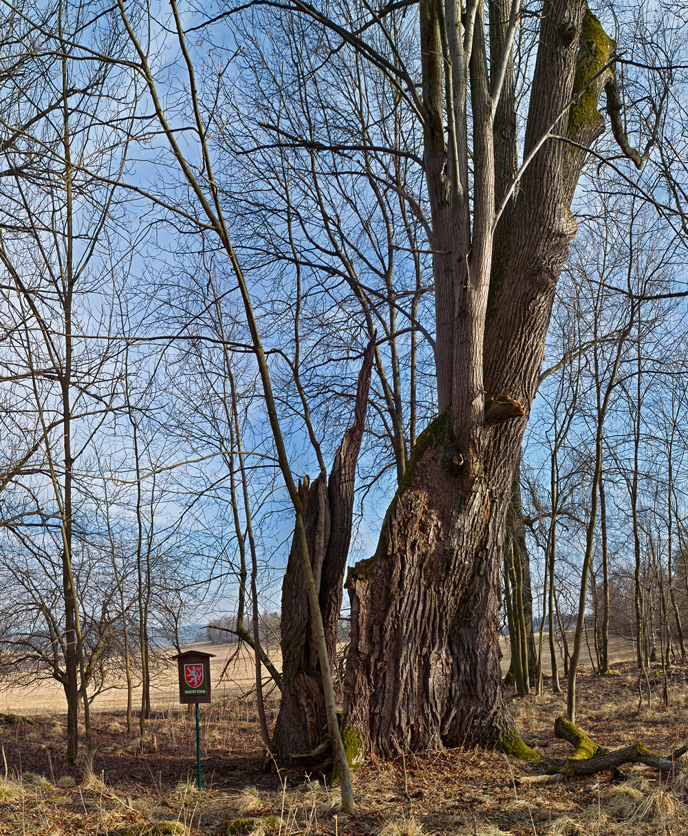 Memorable lime-tree in Babi village (Cesky Krumlov district), Czech Republic